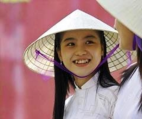 Young Vietnamese girl in aodai dress and non la hat.